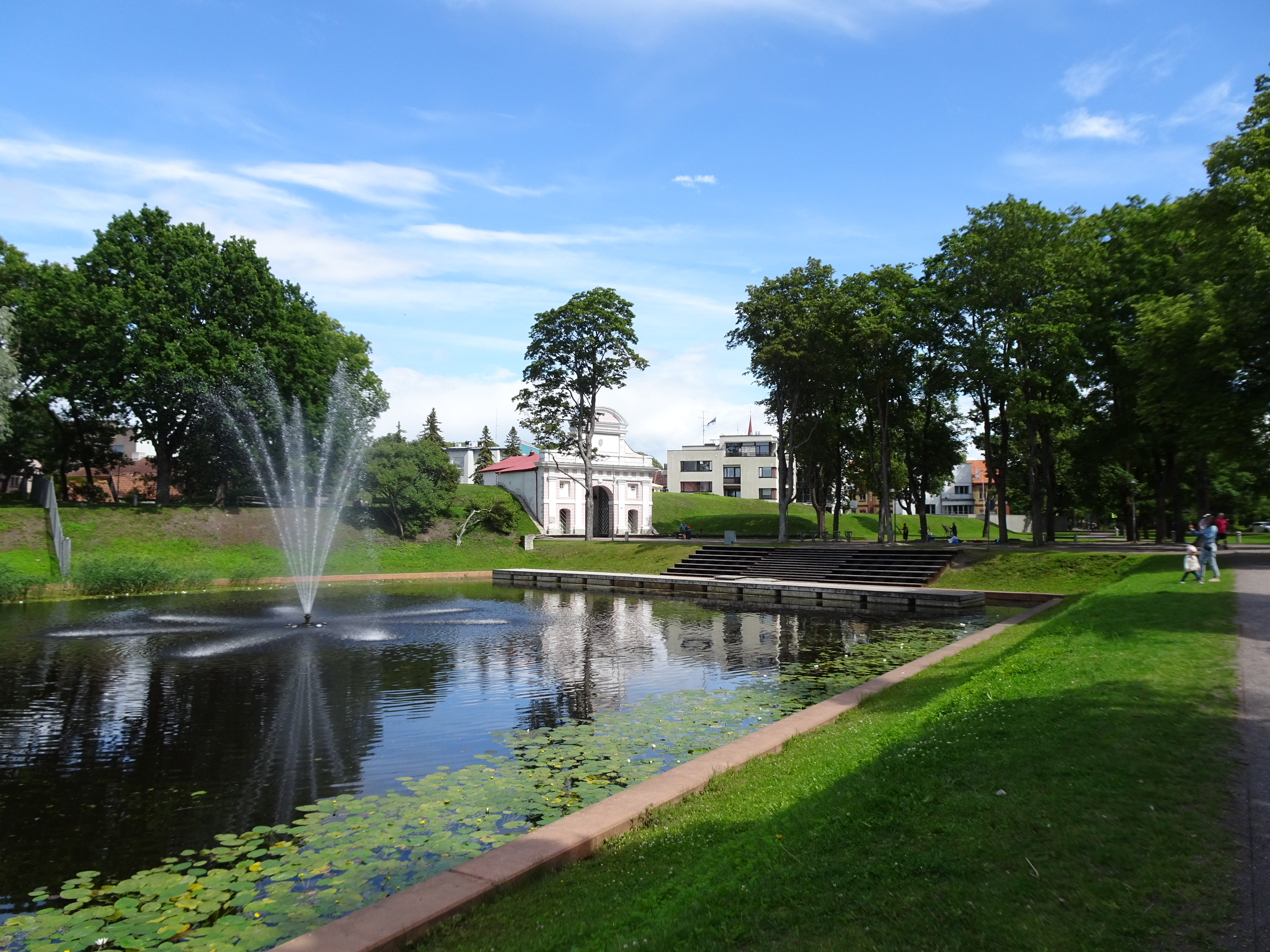 Pärnu Moat